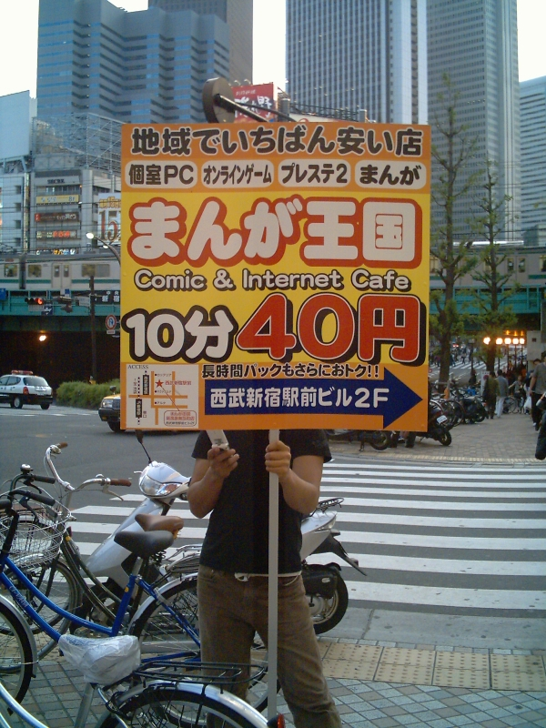 Internet_cafe Tokyo japan